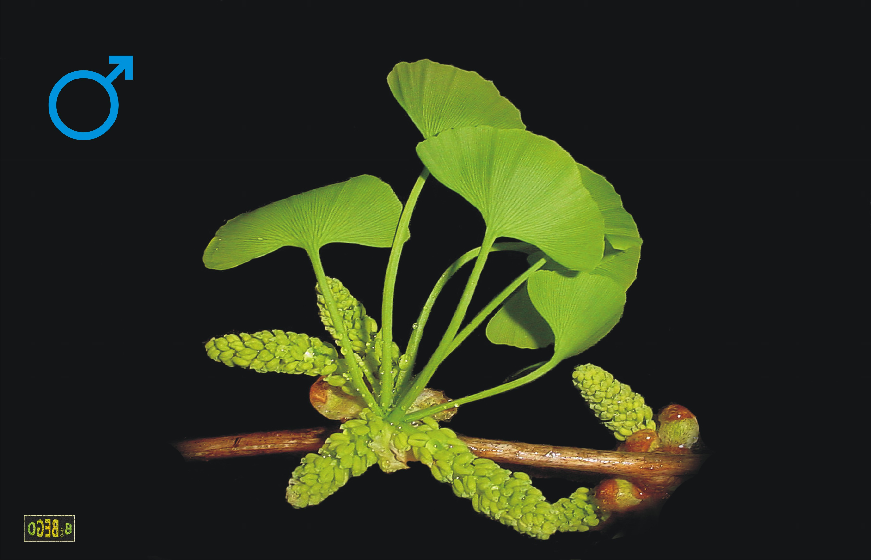 Ginkgo biloba male flower. By BM Begovic Bego